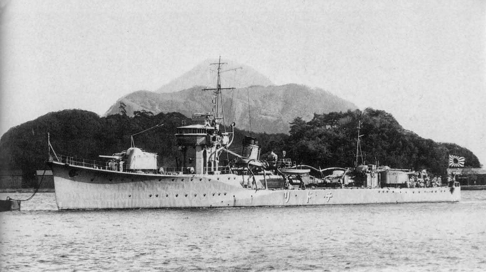 IJN torpedo boat CHIDORI at Maizuru.